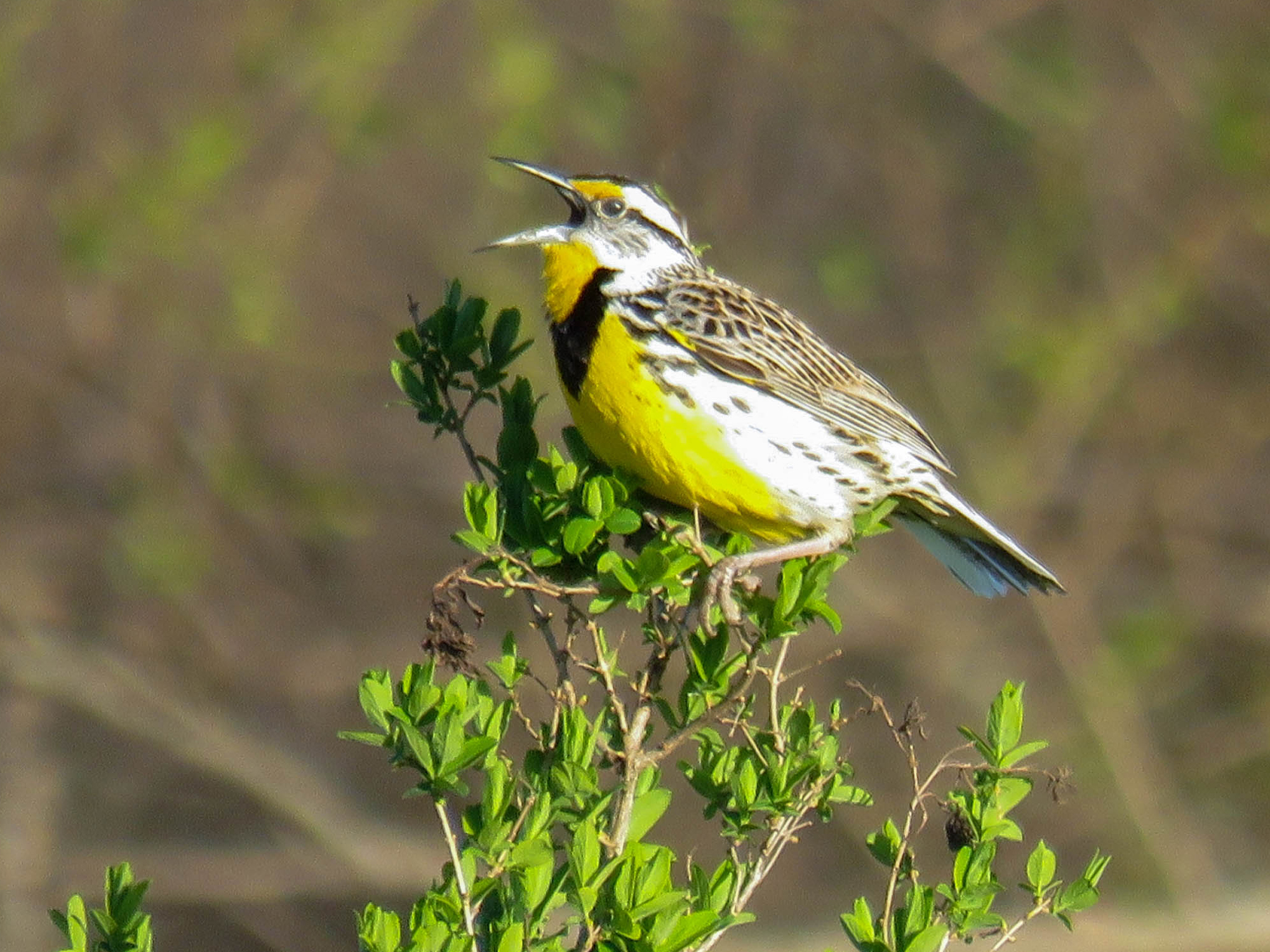 Eastern Meadowlark Sturnella magna, Naperville, DuPage, Chicago